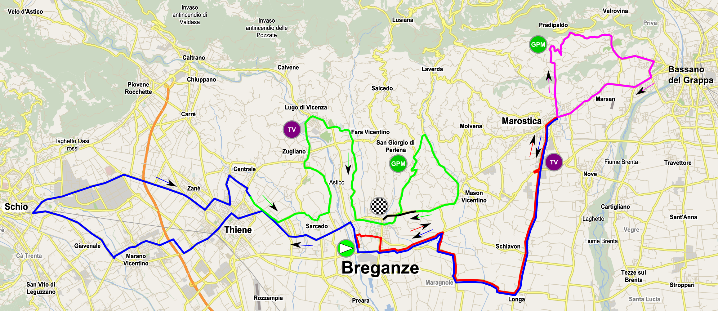 Map of stage 8 of Giro donne 2018. Note that the map and the roadmap given from the organiser differ significantly. This map is realized following the roadmap.